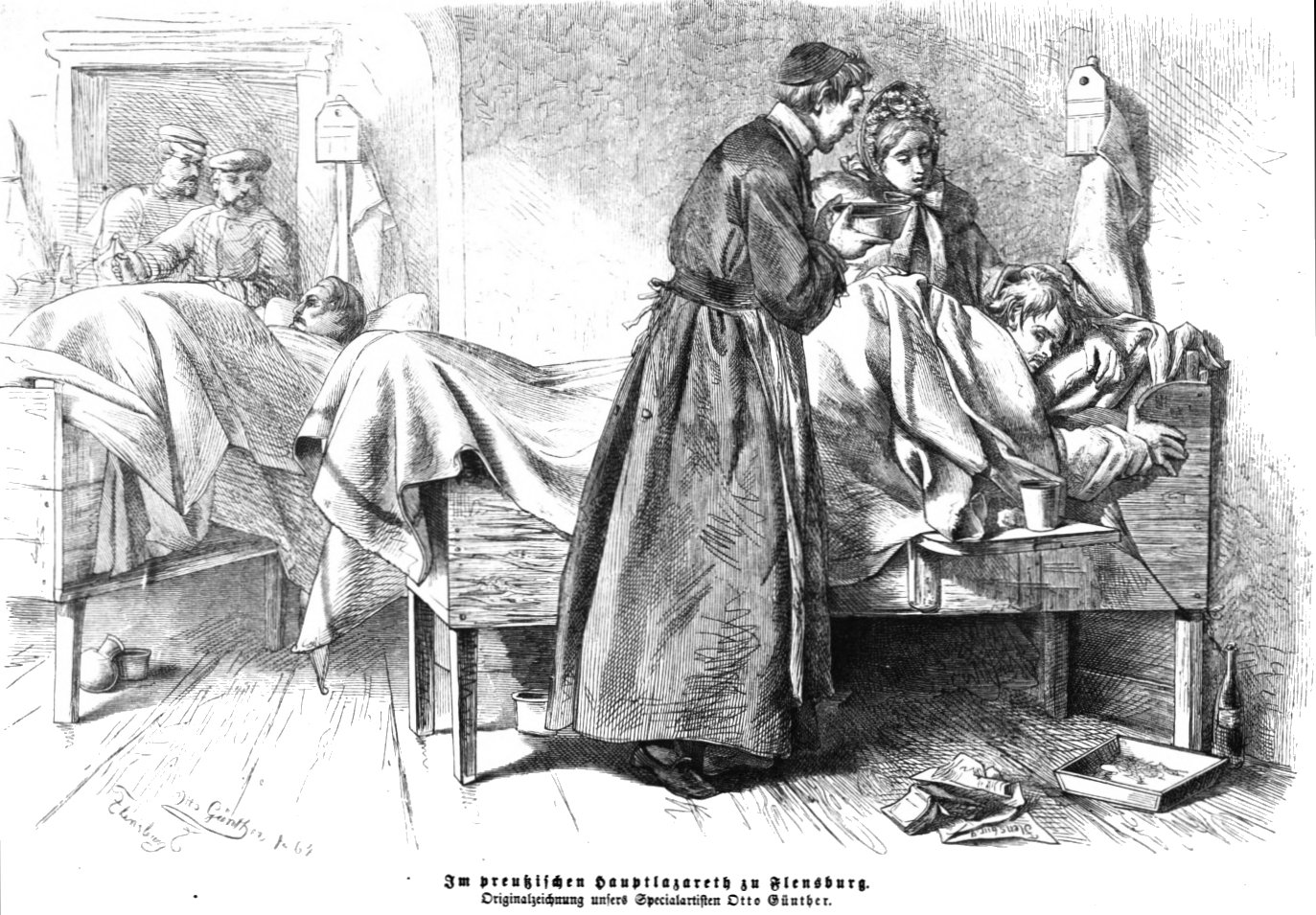 caption: "Im preußischen Hauptlazareth zu Flensburg.Originalzeichnung unsers Specialartisten Otto Günther."